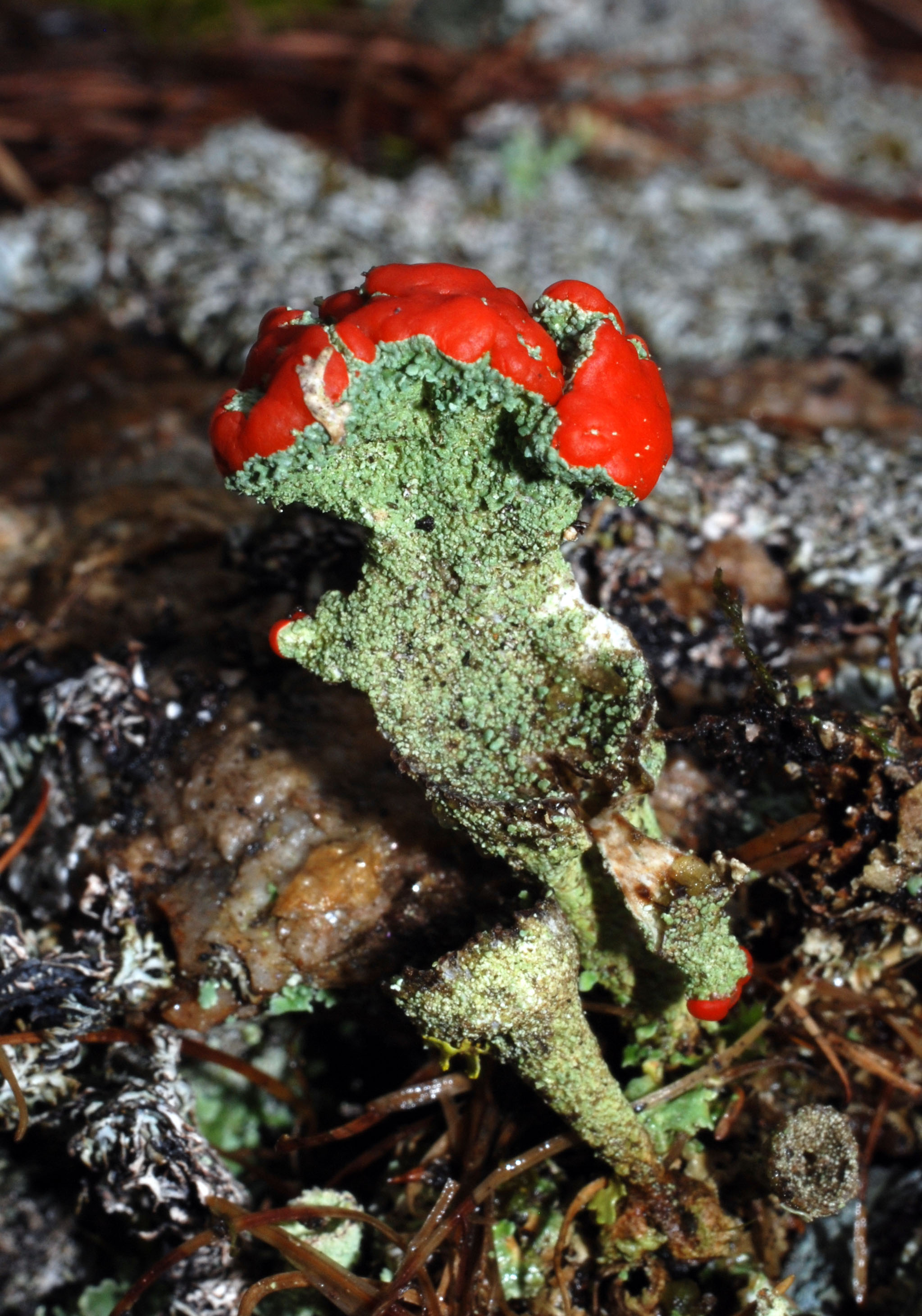 Cladonia coccifera, Near Erlacher Haus, Nockberge, Carinthia, Austria, approx. 1800 m above sea level.